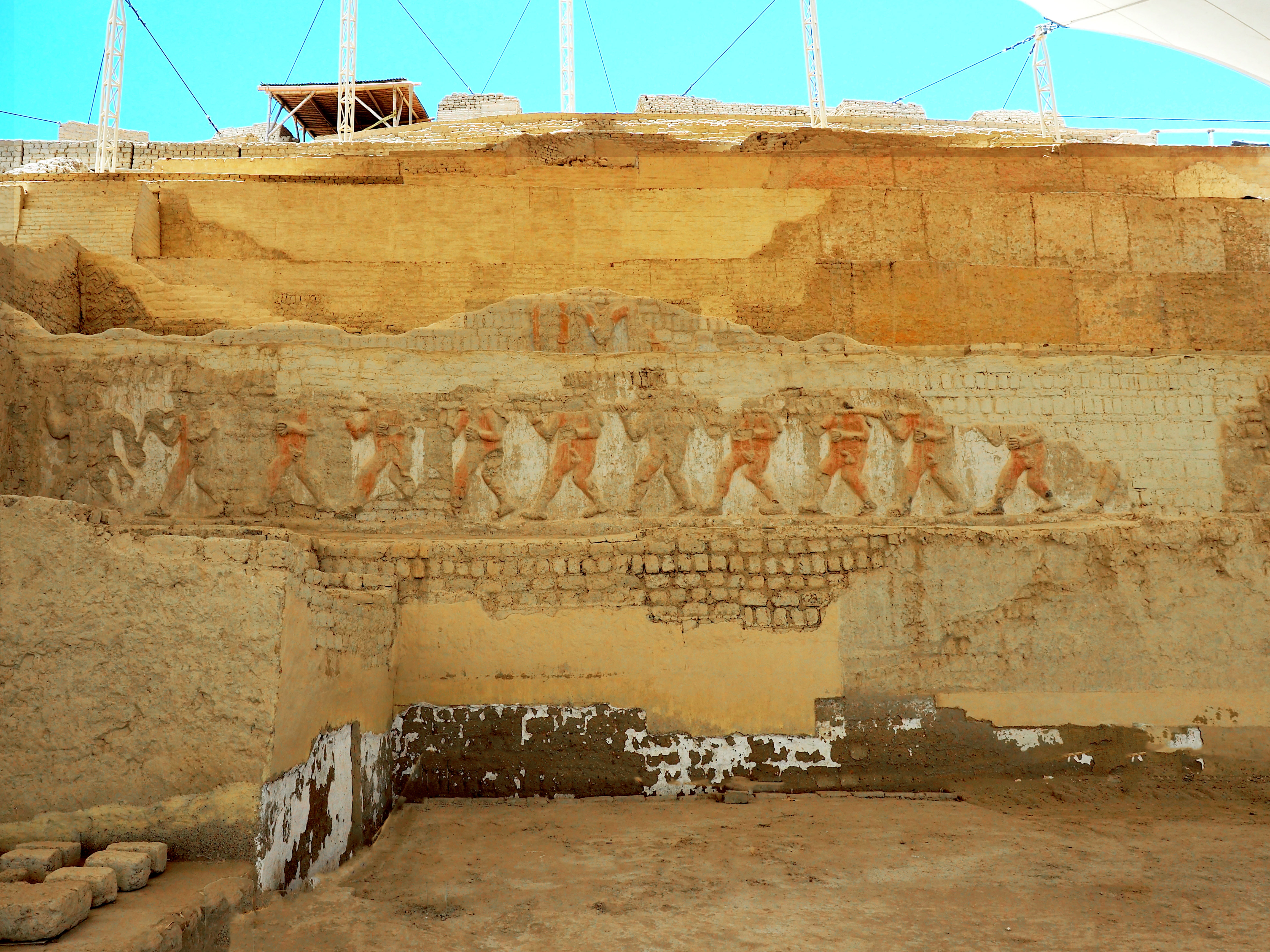 Chicama Valley, La Libertad Province, Peru